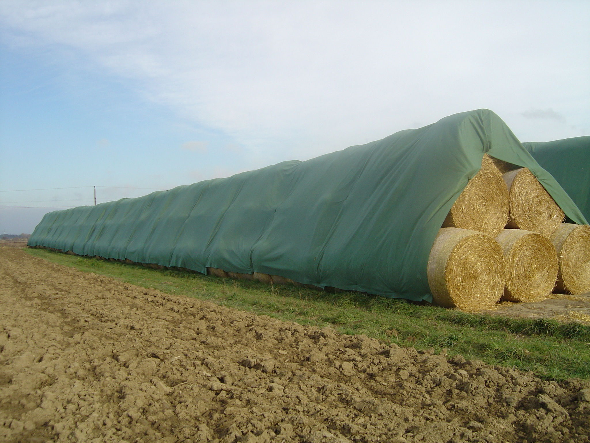 Cover Fleece for Strawbales